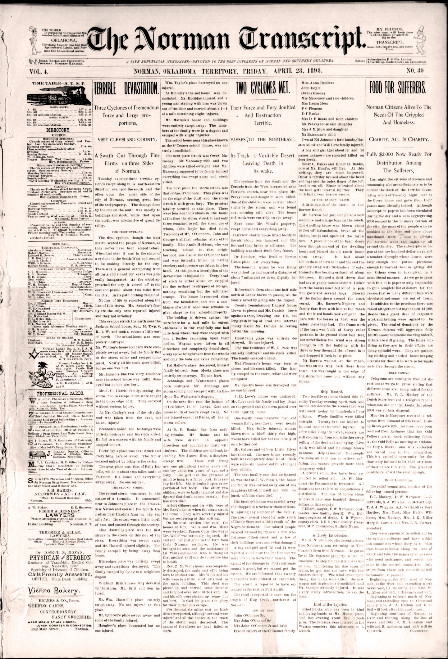 Front Page of the Norman Transcript, Oklahoma Territory, Friday, April 28, 1893